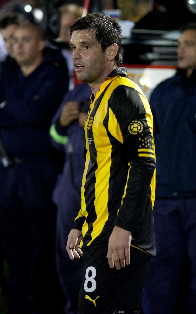 Peñarol captain, Antonio Pacheco, about to take a corner kick during the 2011 Copa Libertadores final in the Centenario Stadium of Montevideo.